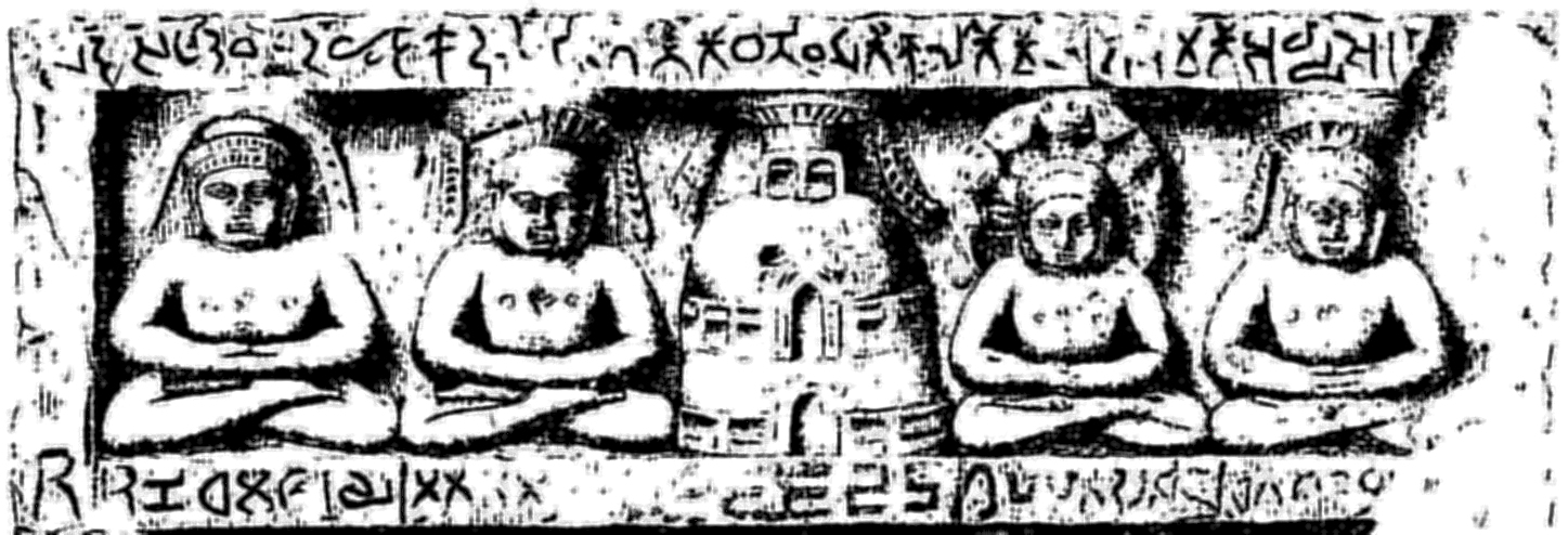 Jain sculpture found during "Kankali Tila" excavation. Kankali Tila (Mathura) was excavated by Dr. Fuhrer in the season 1890-91. The sculpture with a stupa in the center depicts last four tirthankar: Nami, Neminath, Parsva and Mahavira. The inscription on the sculpture reads "year 95", which dates it to 51 A.D. (if Vikram Samvat calendar is considered). Published in 1901